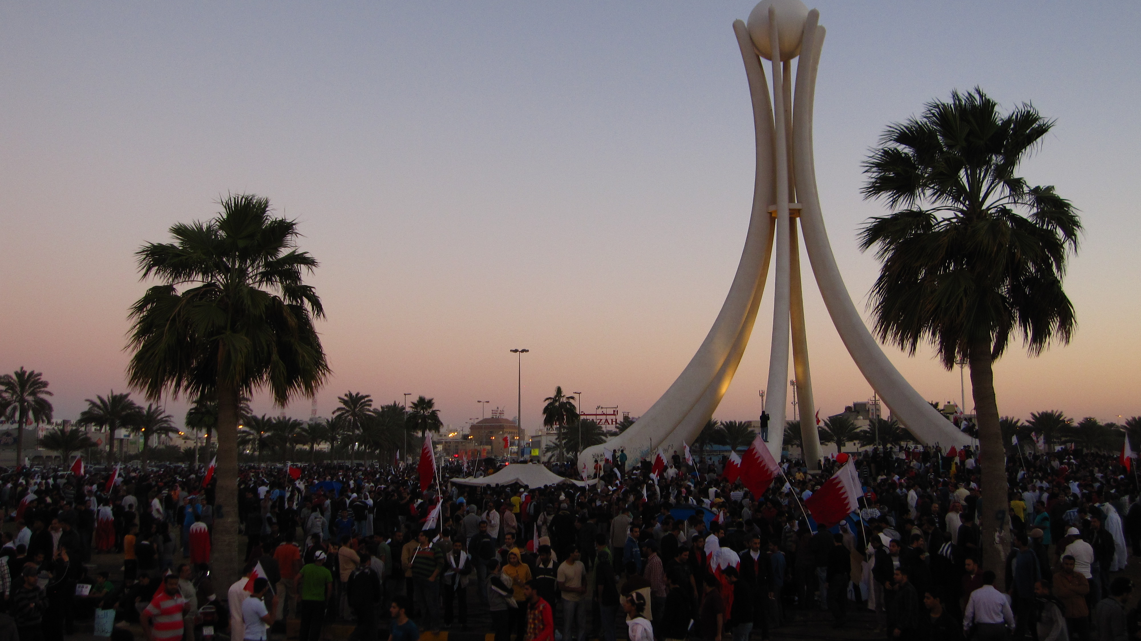 The Bahraini capital's most famous downtown public space.